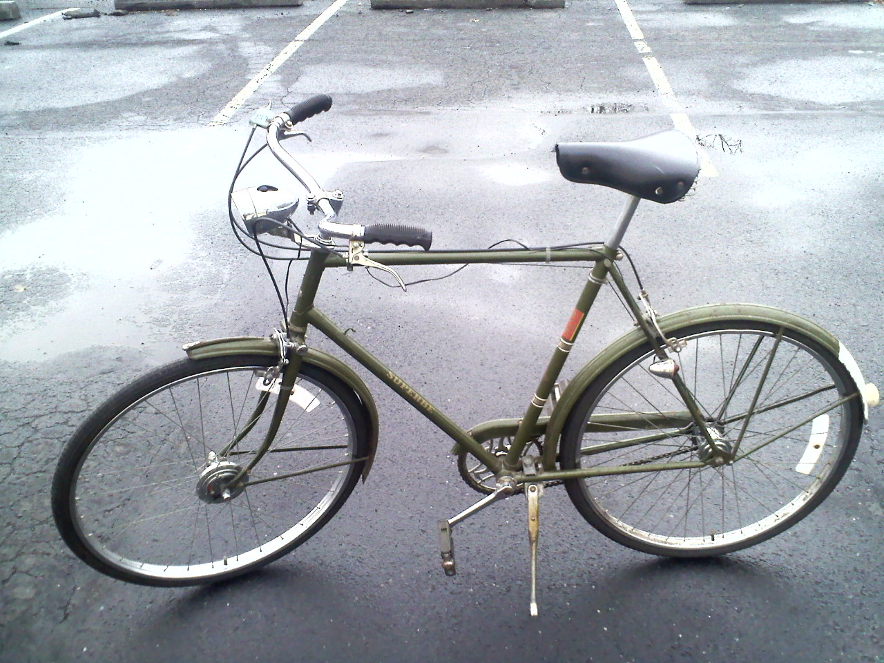 This is a picture of my 1971 Raleigh Superbe.